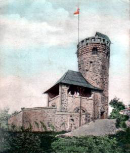 Bismarck tower at the top of the Hemsberg in Bensheim (Hesse, Germany)